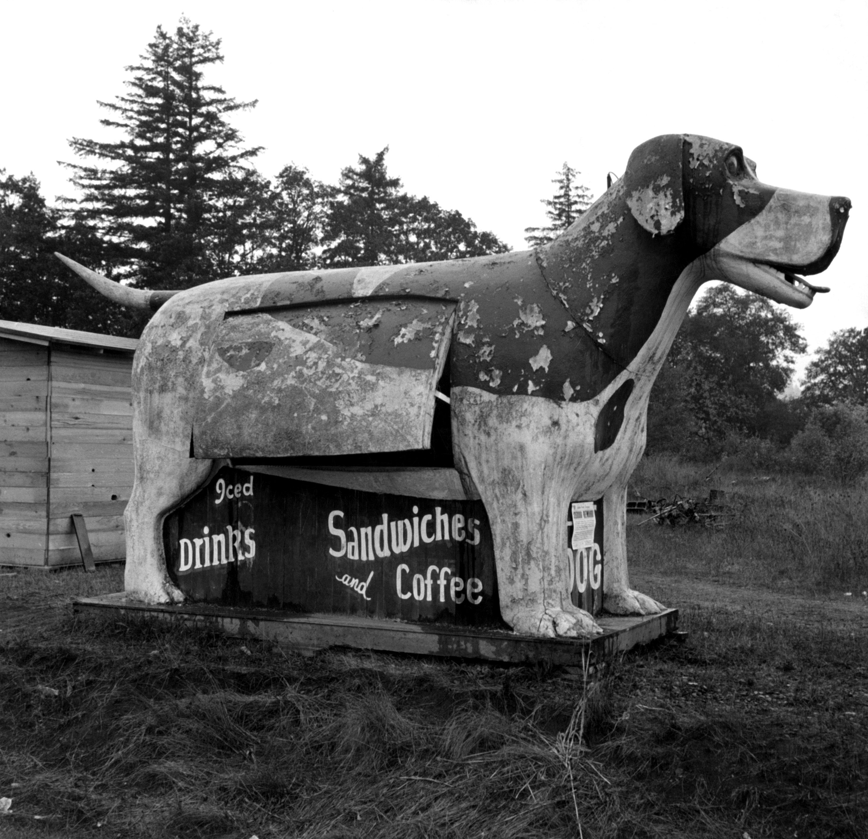 Refreshment stand on U.S. highway 99 in Oregon photographed by Dorothea Lange, 1939. Novelty building shaped like giant dog. "On U.S. 99 as it continues through Oregon. Lane County, Williamette Valley, Oregon"